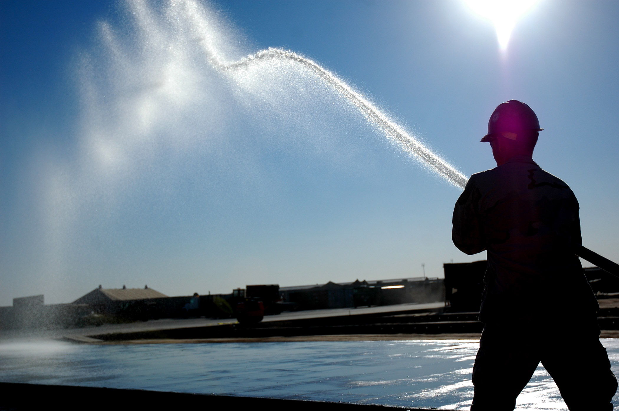 IRAQ (Jan. 7, 2008) A Seabee assigned to Naval Mobile Construction Battalion (NMCB) 1, Task Force Sierra, waters a freshly laid pad of concrete to aid the curing process. NMCB-1 is deployed to several locations in the Middle East and Afghanistan providing responsive military construction support to U.S. military operations in the region. U.S. Navy photo by Mass Communication Specialist 2nd Class Demetrius Kennon (Released)